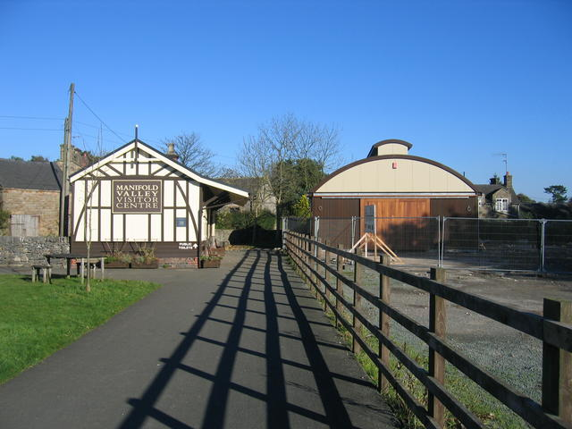 Hulme End Station, near to Hulme End, Staffordshire, Great Britain. The former terminus of the narrow gauge Leek and Manifold Railway Link , which operated between 1904 and 1934 and has now been now transformed into a visitor centre. The building on the right is a recent rebuild of the former engine shed for the railway that has been undertaken as part of the expansion of the visitor facilities.